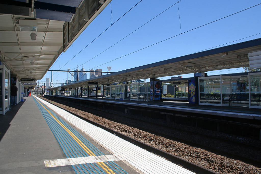 Station platforms looking towards the city at Richmond railway station, Melbourne.